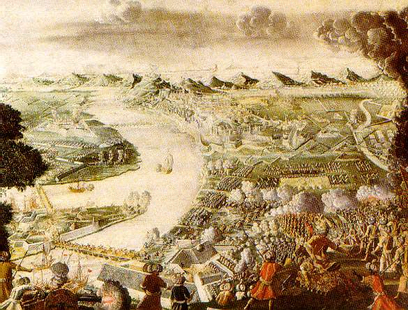 Liberation of Buda 1686